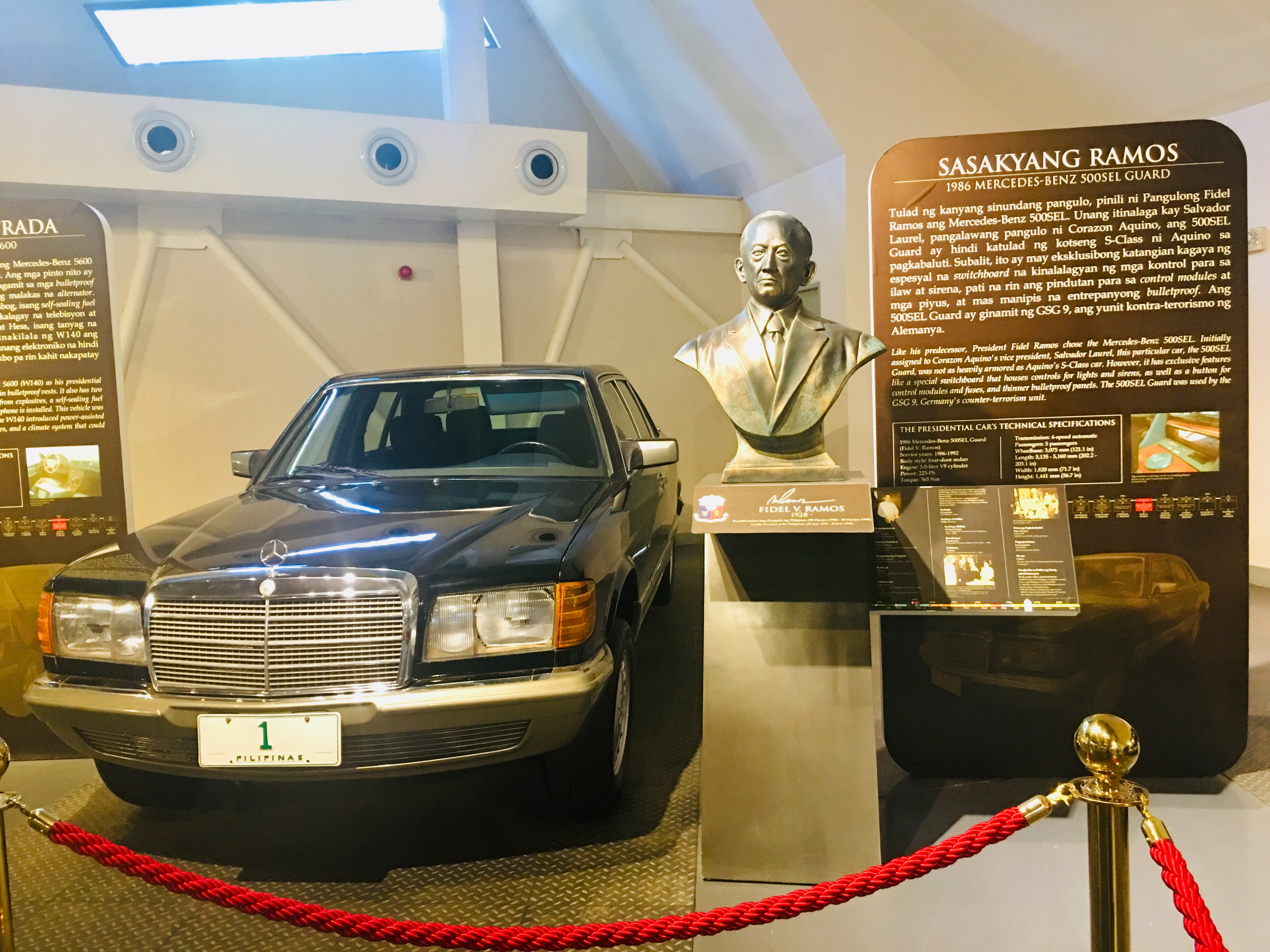 Presidential car of Fidel Ramos